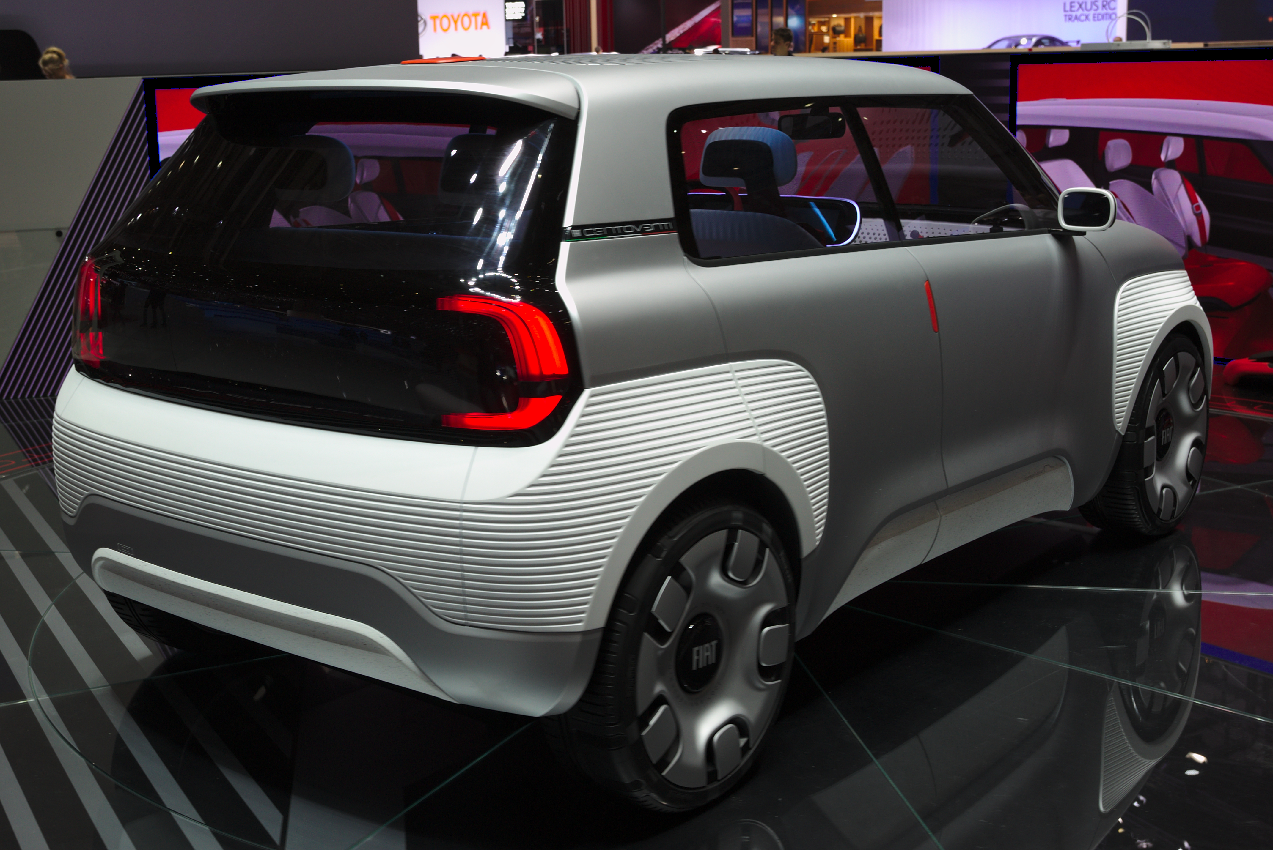 Fiat Centoventi Concept at Geneva Motorshow 2019